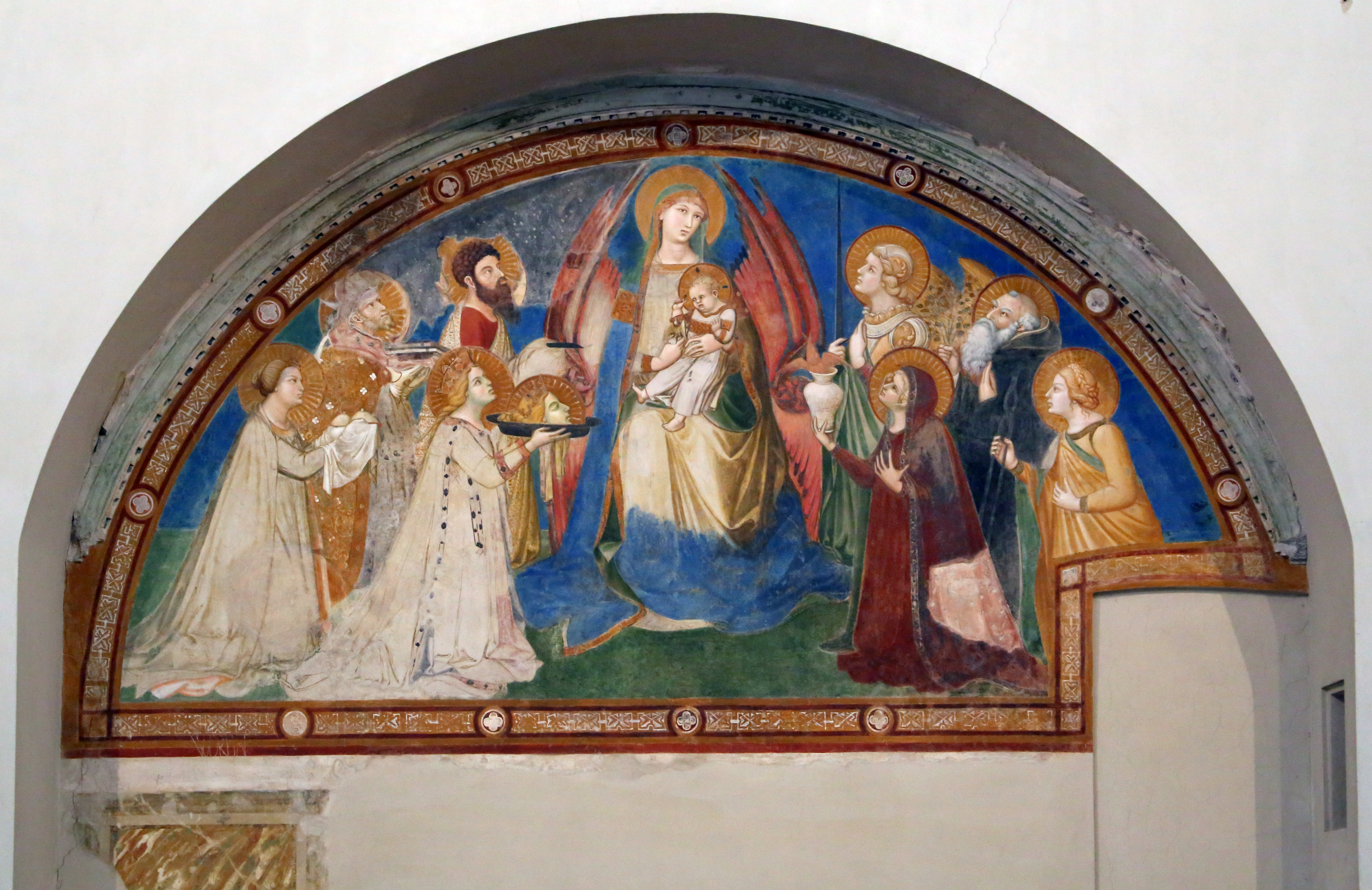 Sant'Agostino (Siena) - Interior